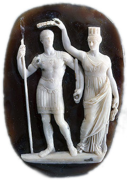 Sardonyx cameo depicting constantine the great crowned by Constantinople, 4th century AD 18.5 x 12.2cm [1]